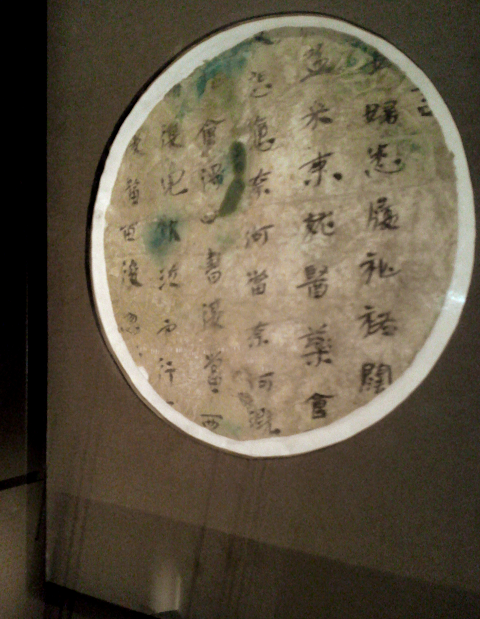 Manuscript on paper. Eastern Han Dynasty